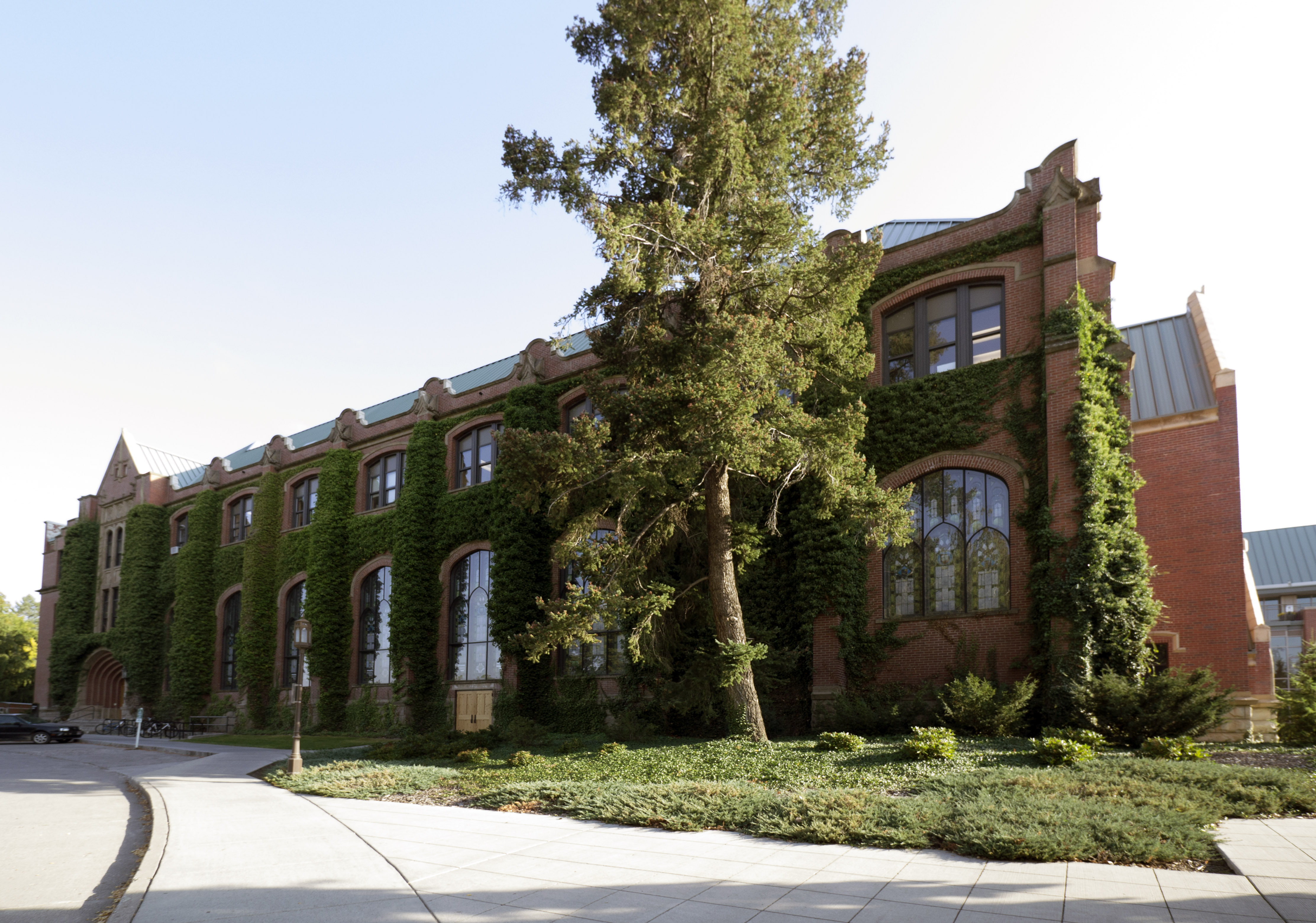 Administration Building, University of Idaho